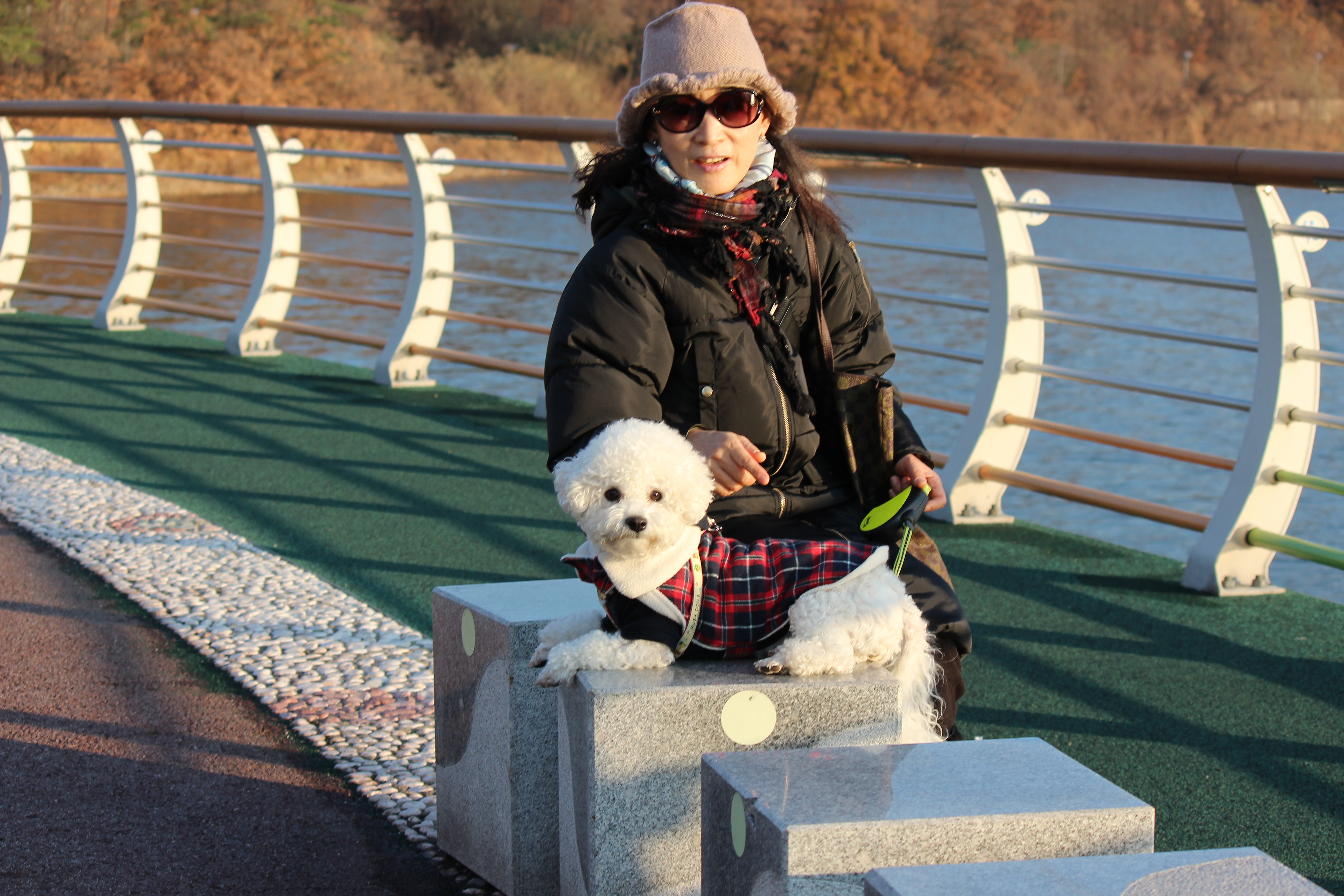 Bichon Frisé